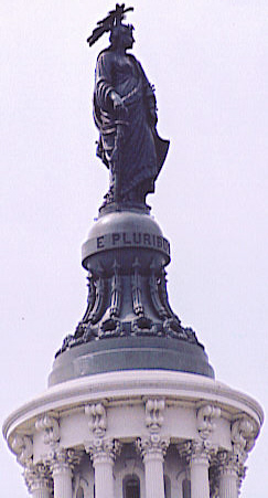 United States Capitol, Washington, D.C., United States, Statue